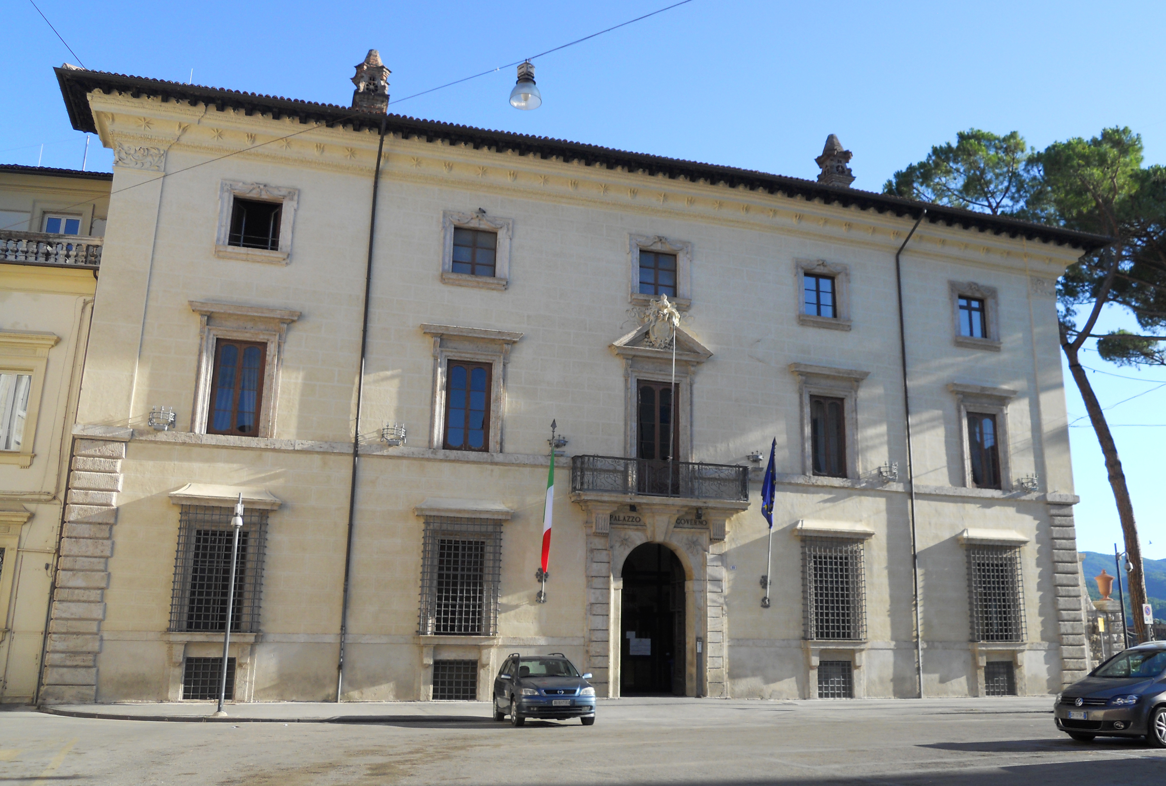 Facade of Palazzo Vincentini - Rieti, Italy